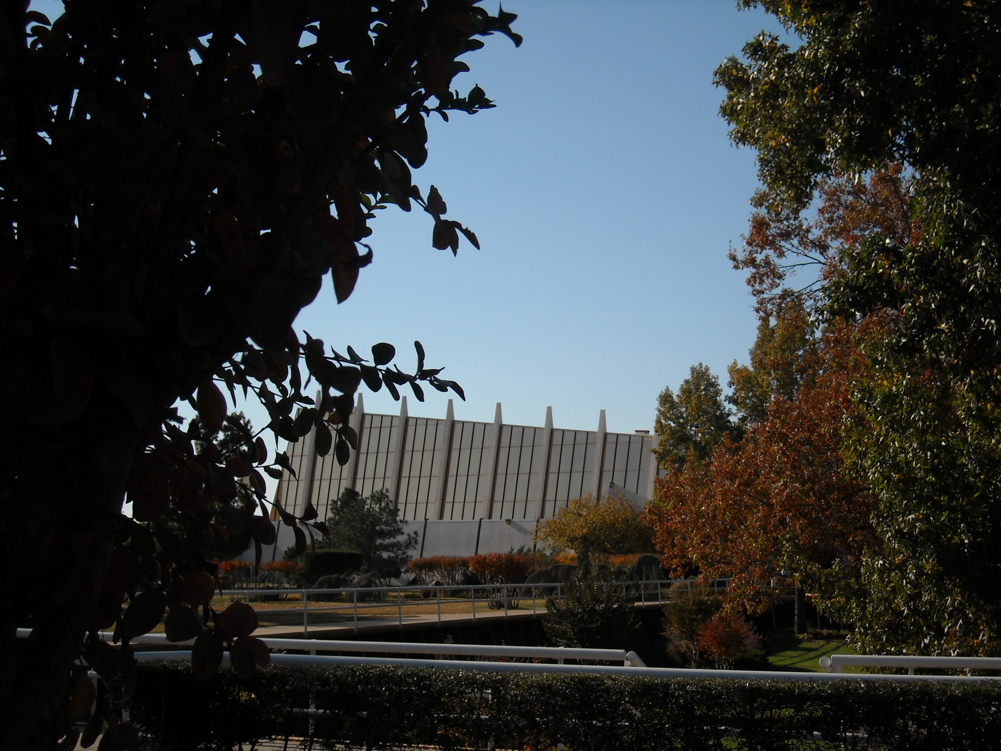 Christ's Chapel as seen from the Prayer Garden.